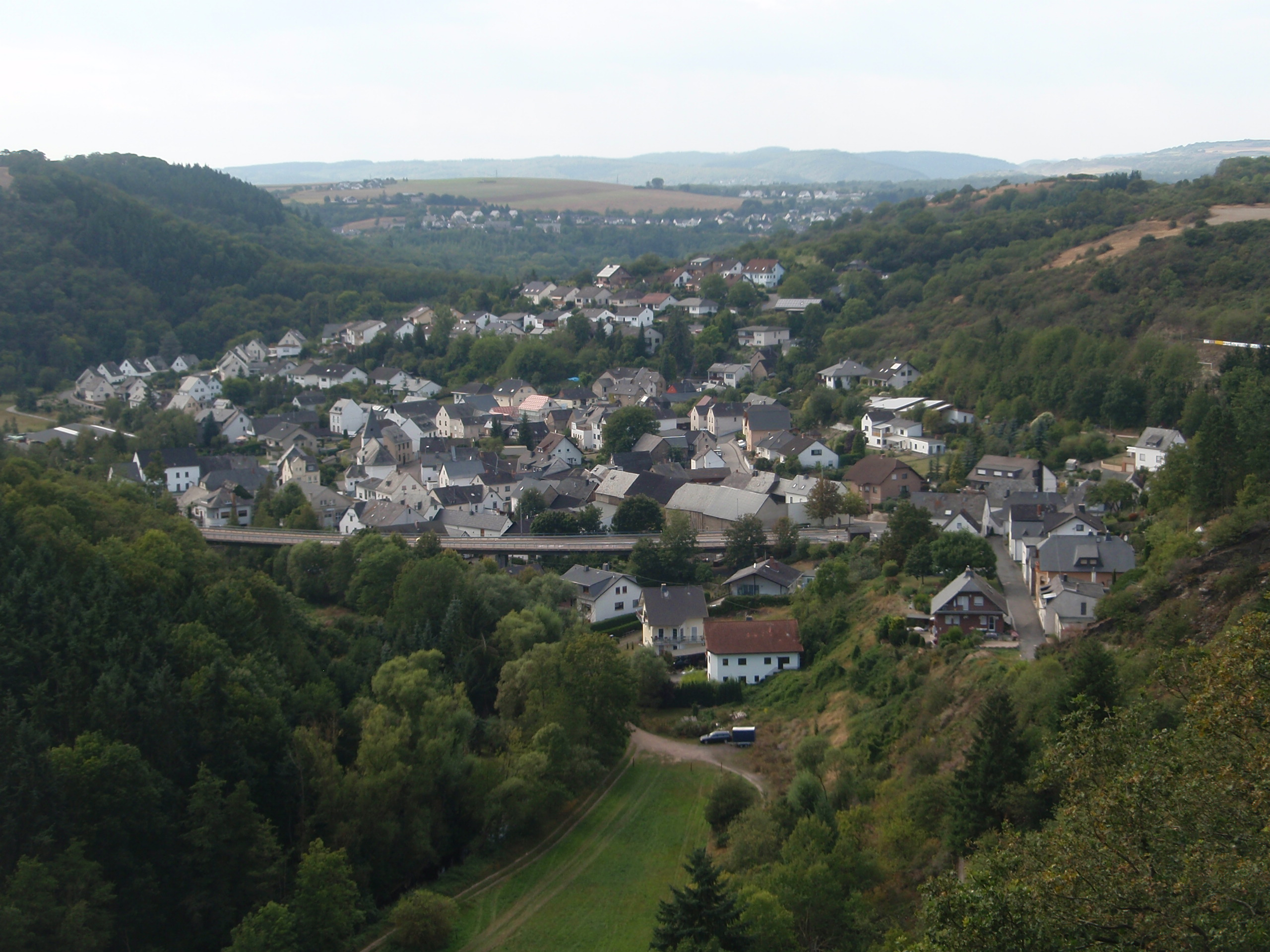 Trimbs, view from east